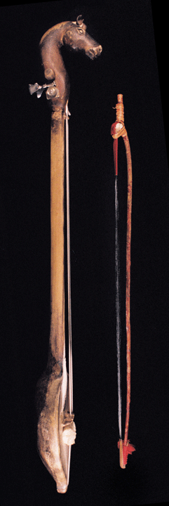 Igil with carved horse head decoration made by Oktober Saya Photo by Johanna Kovitz.